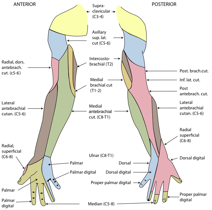 The cutaneous innervation of the right upper limb. Both areas supplied by the medial brachial cutaneous are colored green. The areas supplied by branches of the radial nerve are colored in pink.